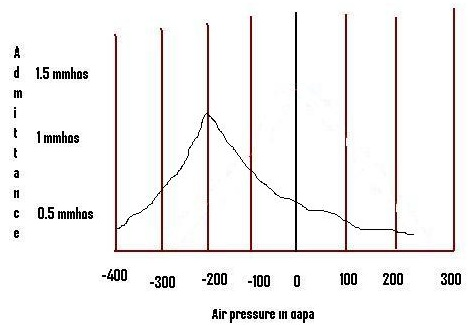 Dr. T. Balasubramanian